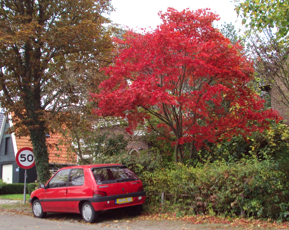 Red colors in nature and manmade objects.